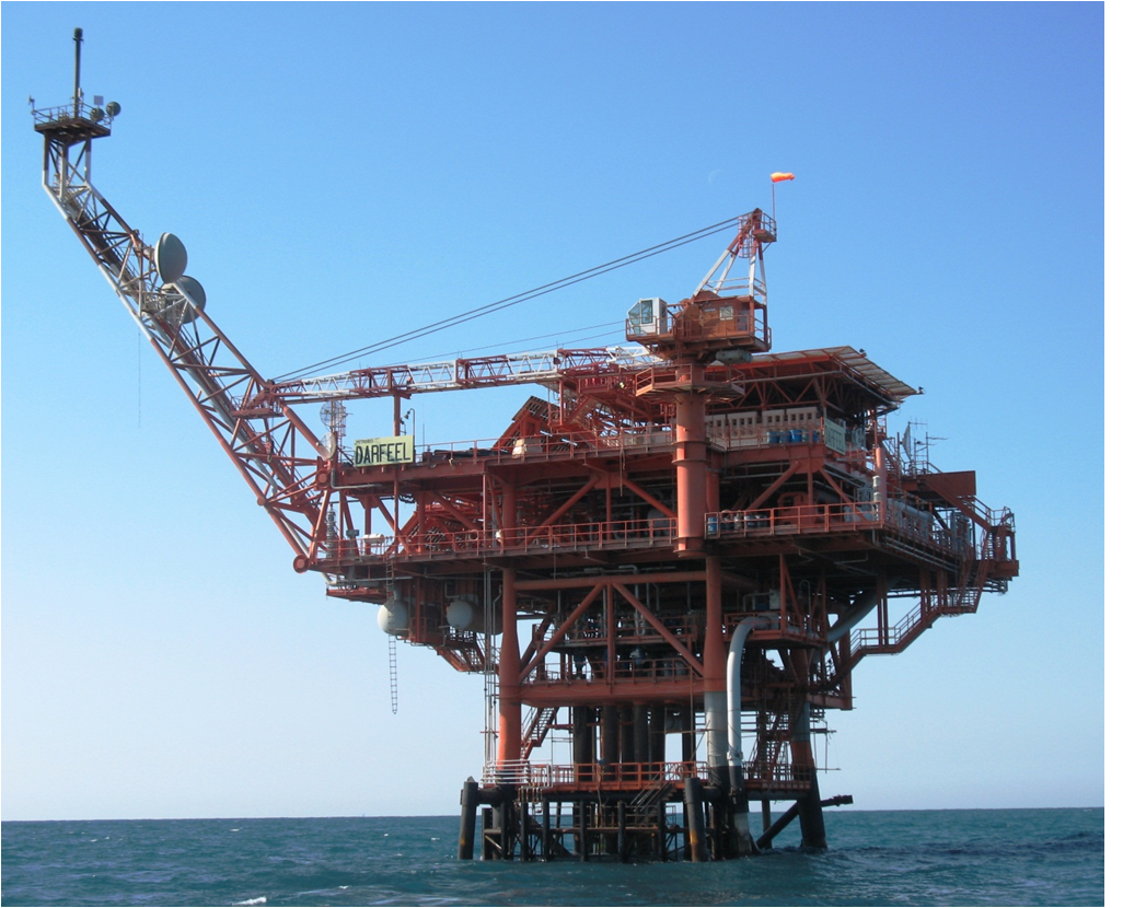 darfeel